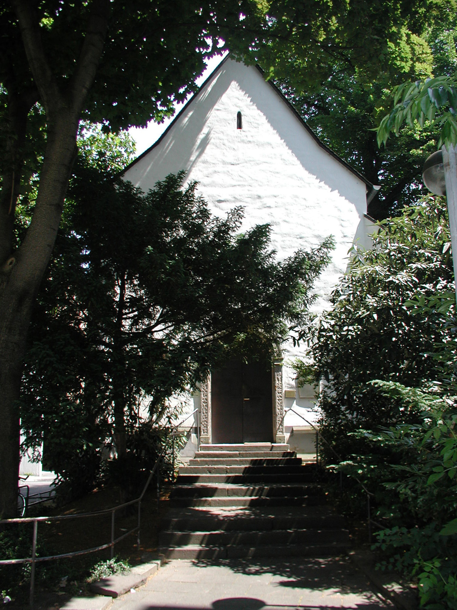 Cologne, Maria Ablass chapel (1431)